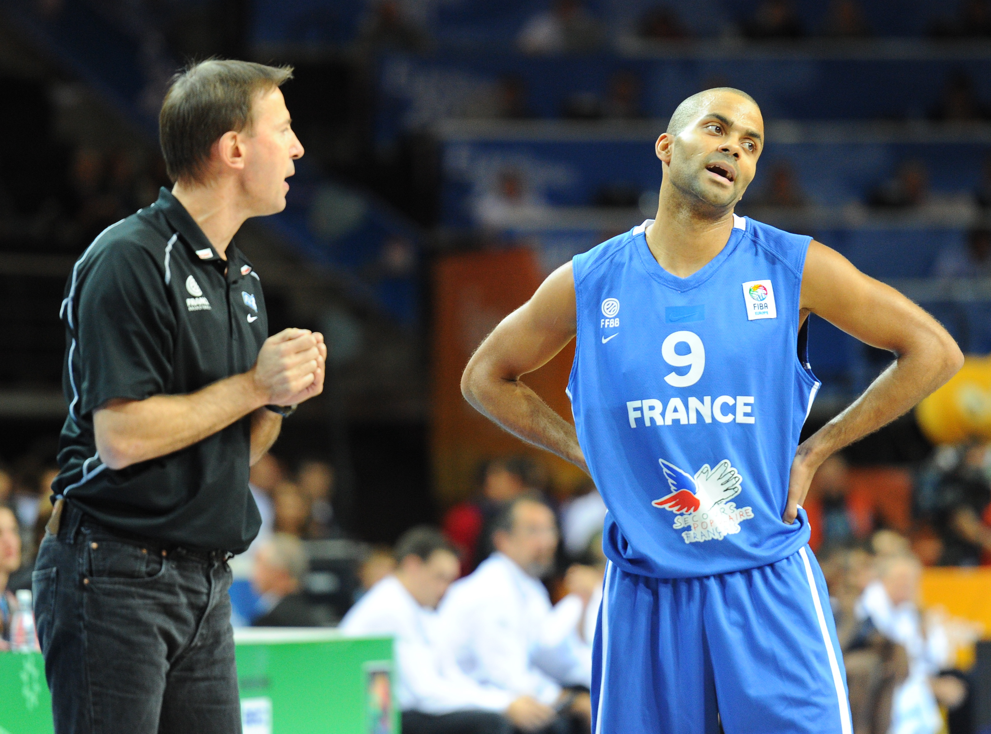 Tony Parker of France at Eurobasket 2011.